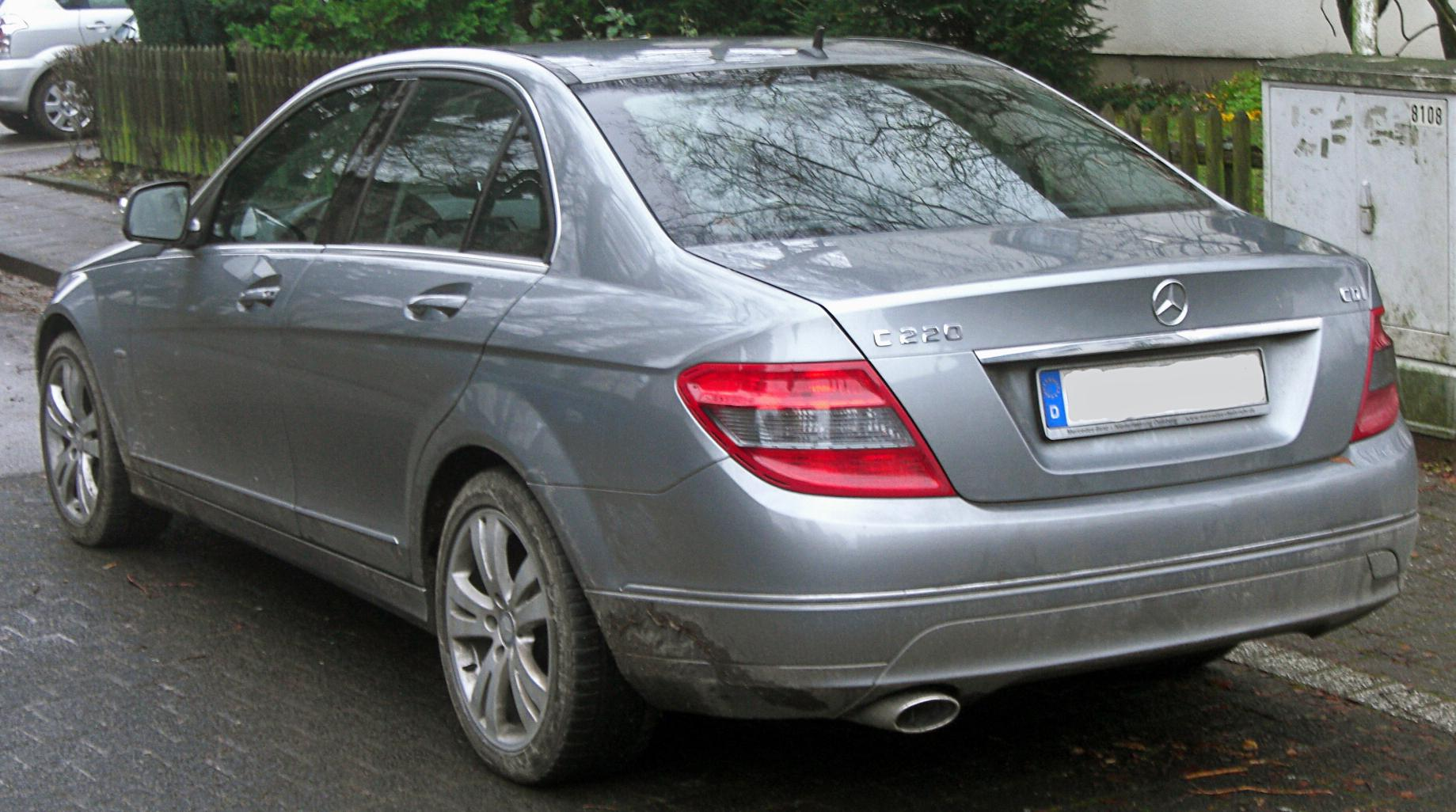 Description: Mercedes C 220 CDI Avantgarde (W204) Source: Matthias Other Version(s)